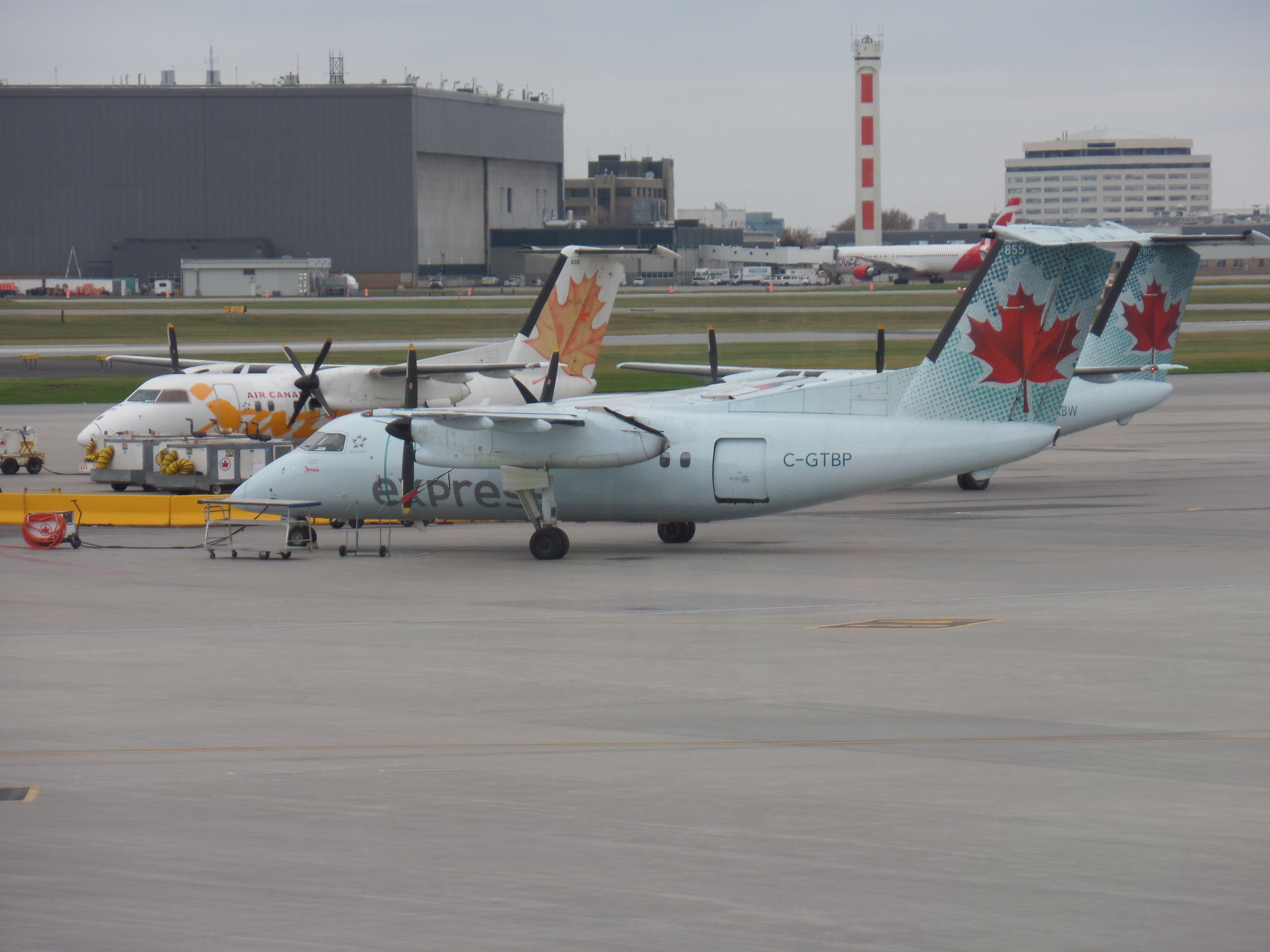 Jazz Air (operated for Air Canada Express) de Havilland Canada DHC-8-102 C-GTBP at Montreal - Pierre Elliott Trudeau International Airport on 25 October 2014.